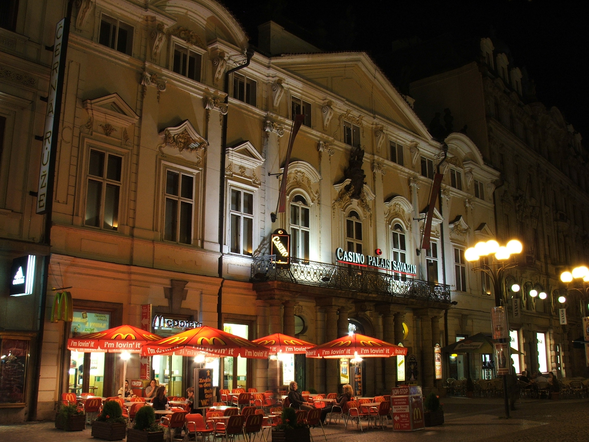 "Bestia triumphans" - Mc Donald's in the baroque Palace Savarin in Prague's New Town, Na příkopě street